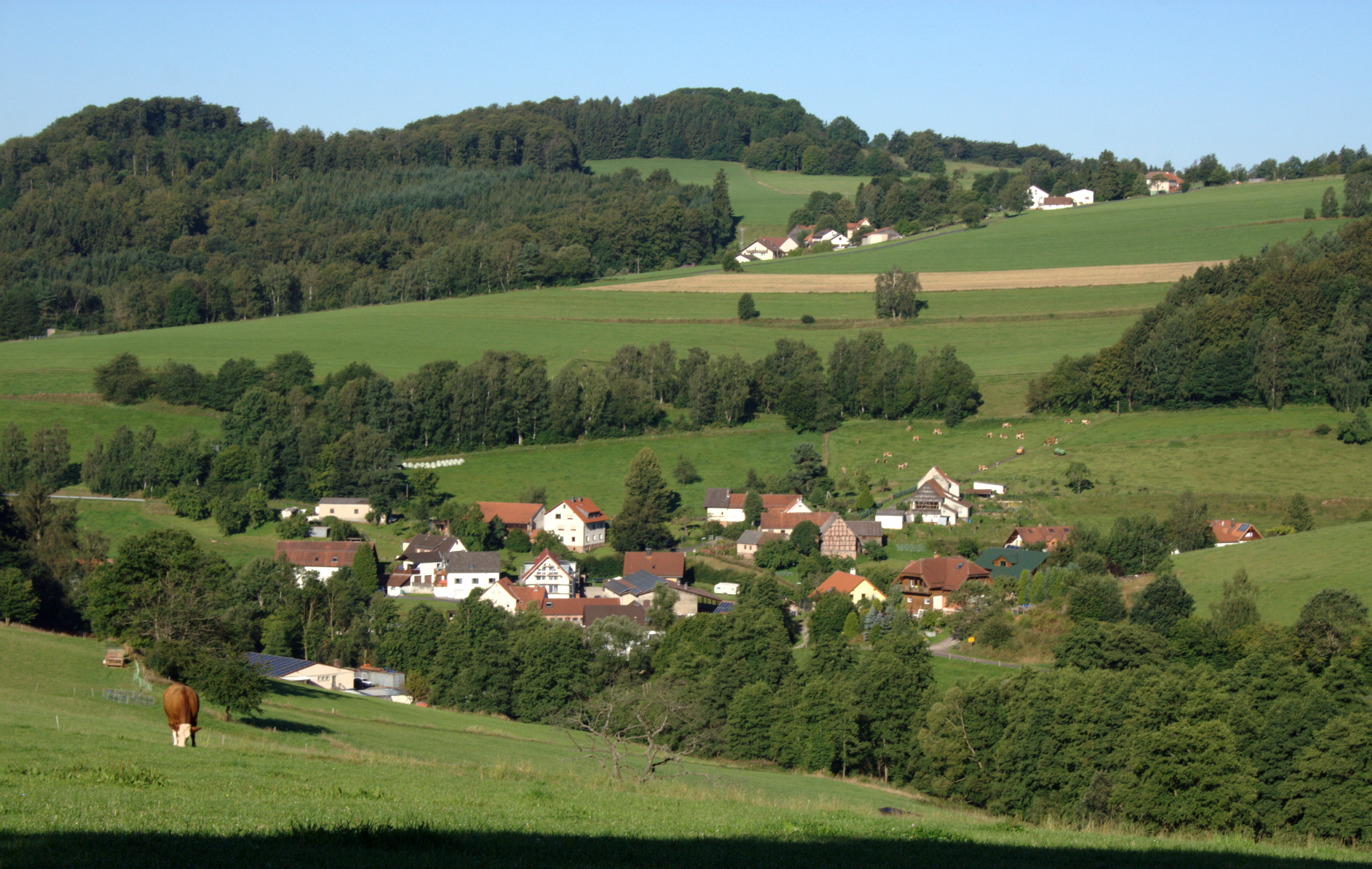 Panoramic view of Maiersbach, Gersfeld, Hesse, Germany